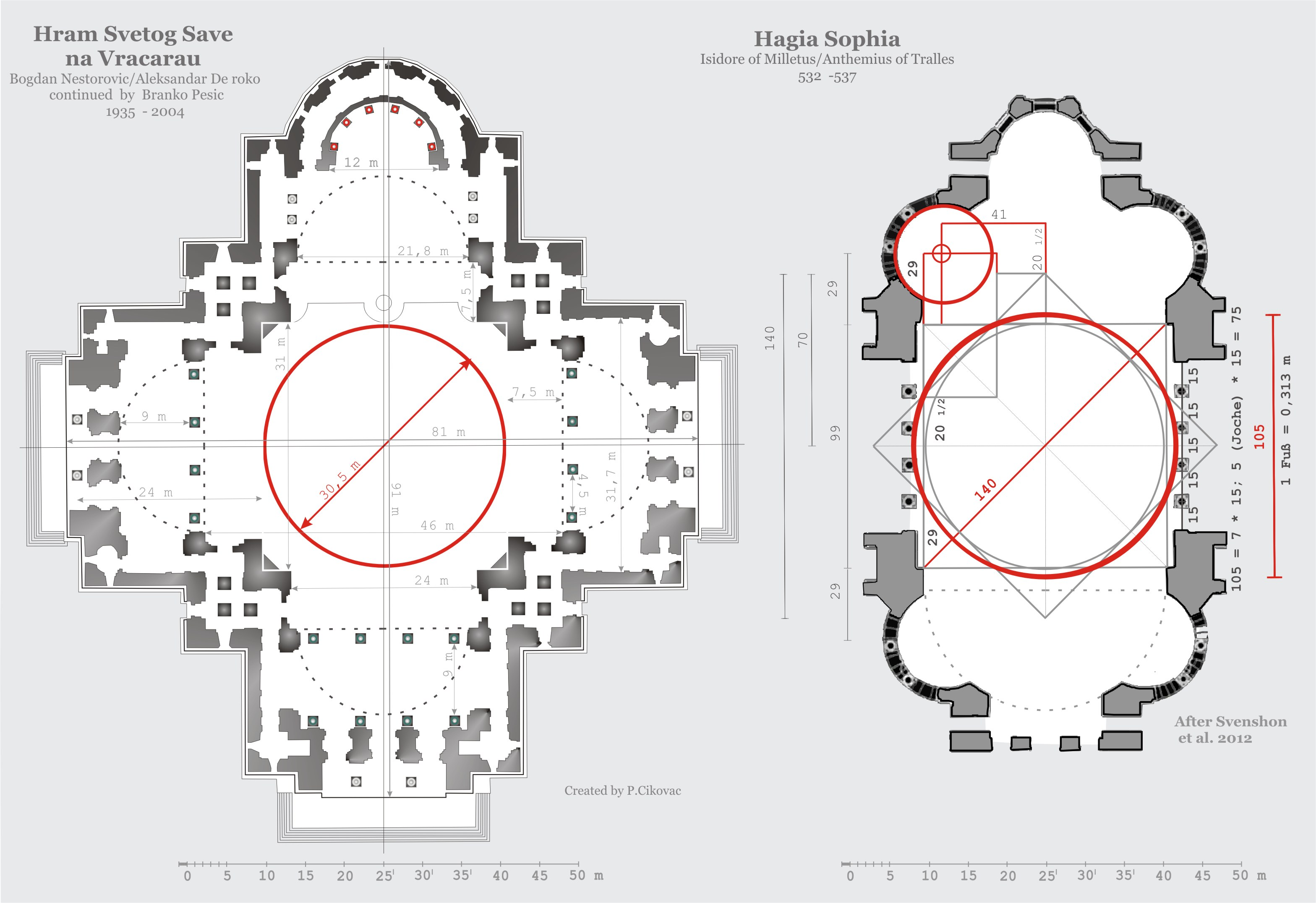 Hagia Sophia Temple of St Sava comparation